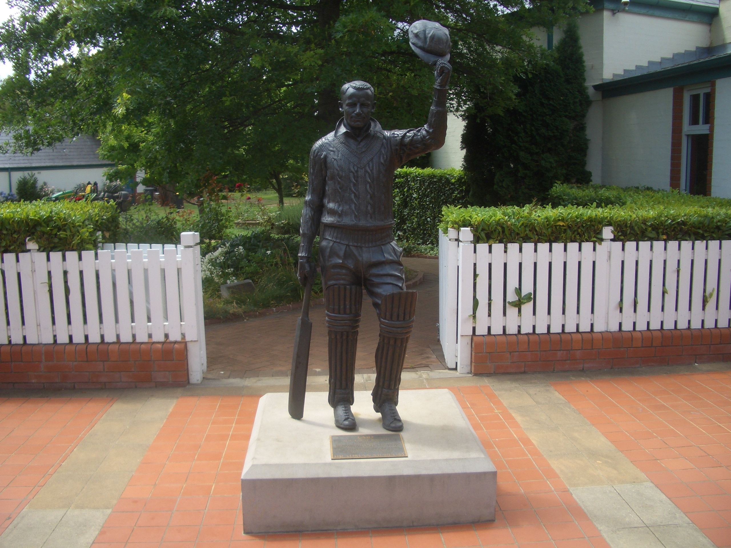 Don Bradman, Cricket, Bradman Museum, Bowral, New South Wales